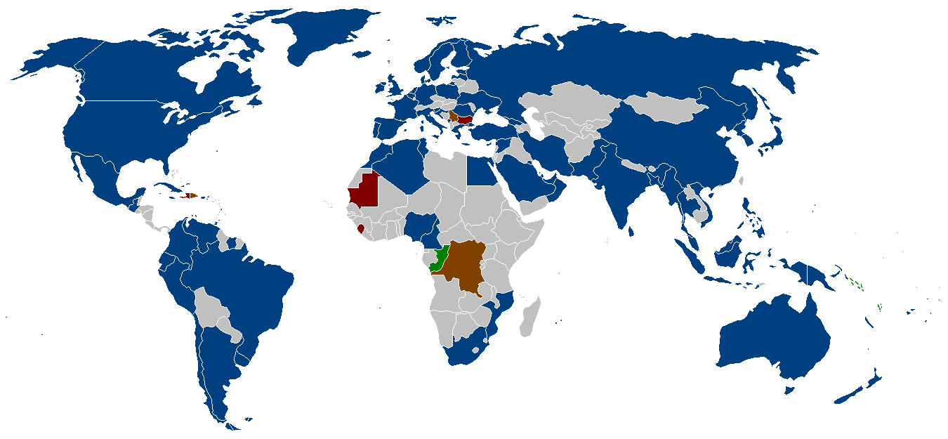 The member states of the International Hydrographic Organization as listed on their website. Blue = members Brown = suspended members Red = approved, but awaiting deposit of Instrument of Accession Green = membership Applications